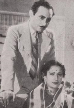 Screen shot of film Sneh Bandhan (1940) from cine-magazine Filmindia from January 1941 issue